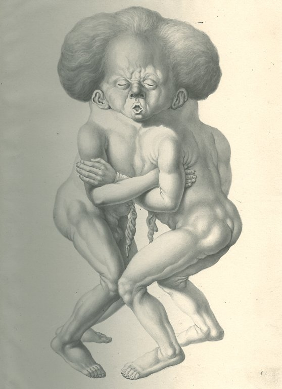 Twins conjoined at the head and thorax.